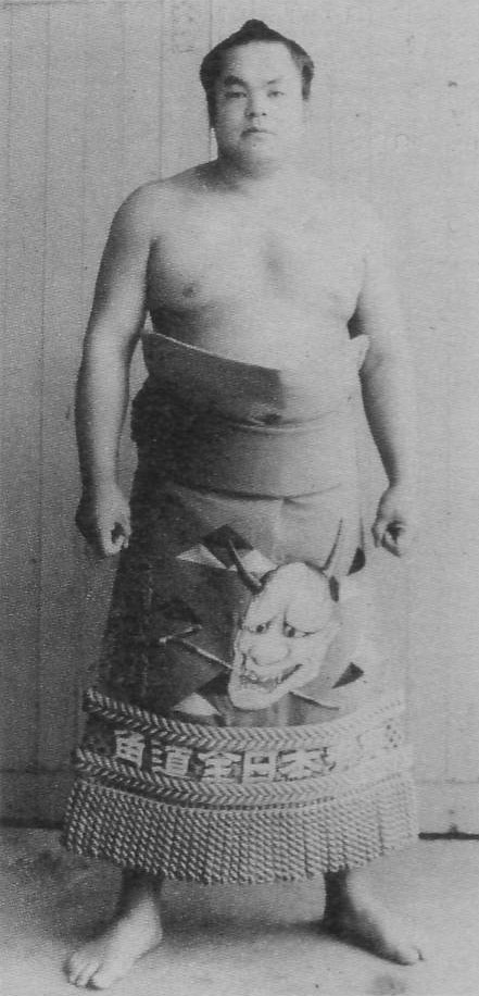 Shimizugawa Akio (Komusubi).